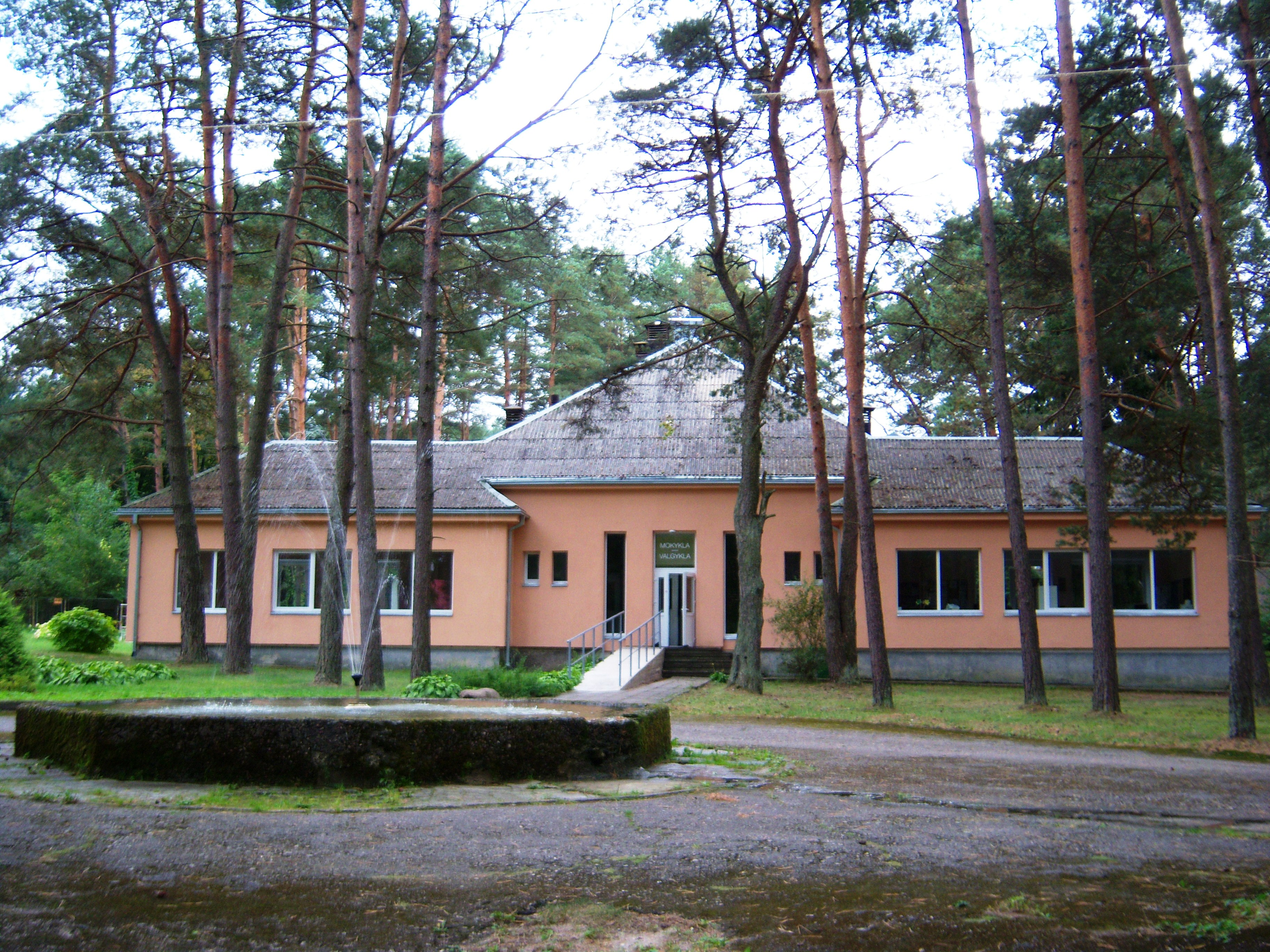 Children sanatory school „Žibutė“, Kačerginė, Kaunas district, Lithuania